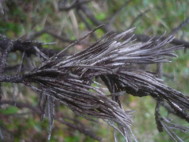 Herpotrichia juniperi (Duby) Petr.on Pinus mugo at 1650 m a.s.l.